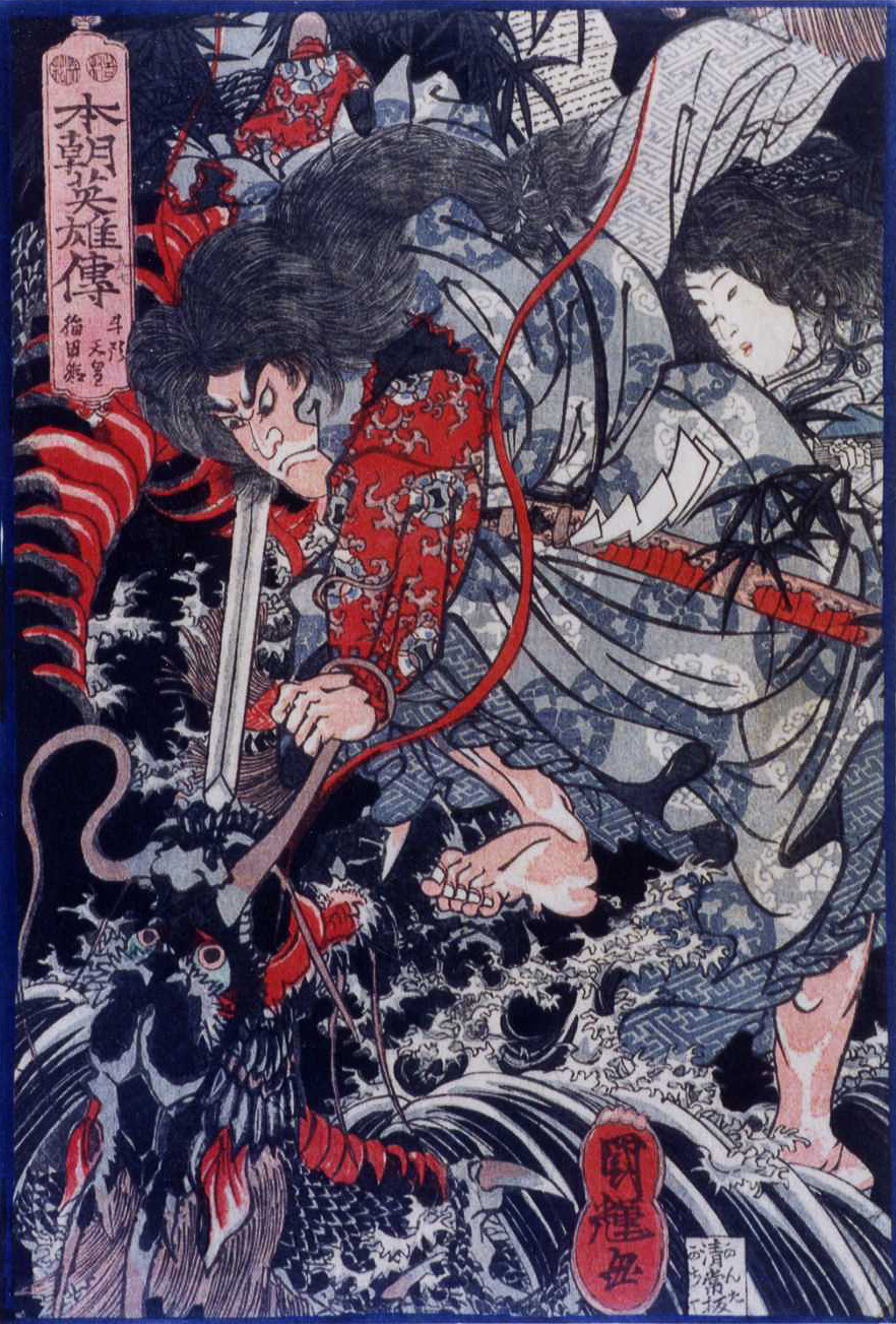 Gozu Tennô kills a dragon to save Princess Inada. He, whose name literarily means "ox-headed heavenly king", is a deity of Buddhist origin considered as identical to Shinto's Susanoo-no-Mikoto. Note that Tennô (天王) here means "heavenly king" and is distinguished from Japanese Emperor's title Tennô (天皇) though the same pronunciation.